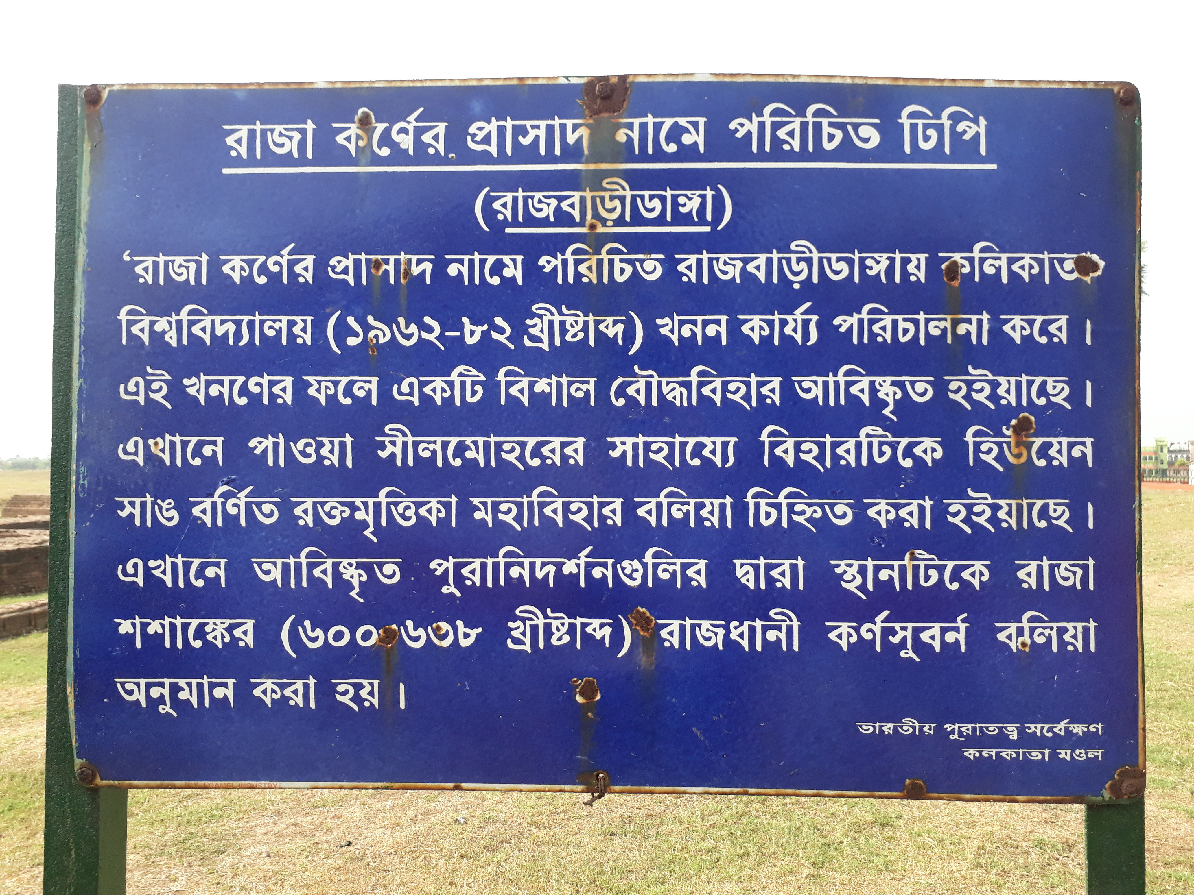 কর্ণসুবর্ণ, রাজবাড়ীডাঙ্গা প্রত্নস্থল